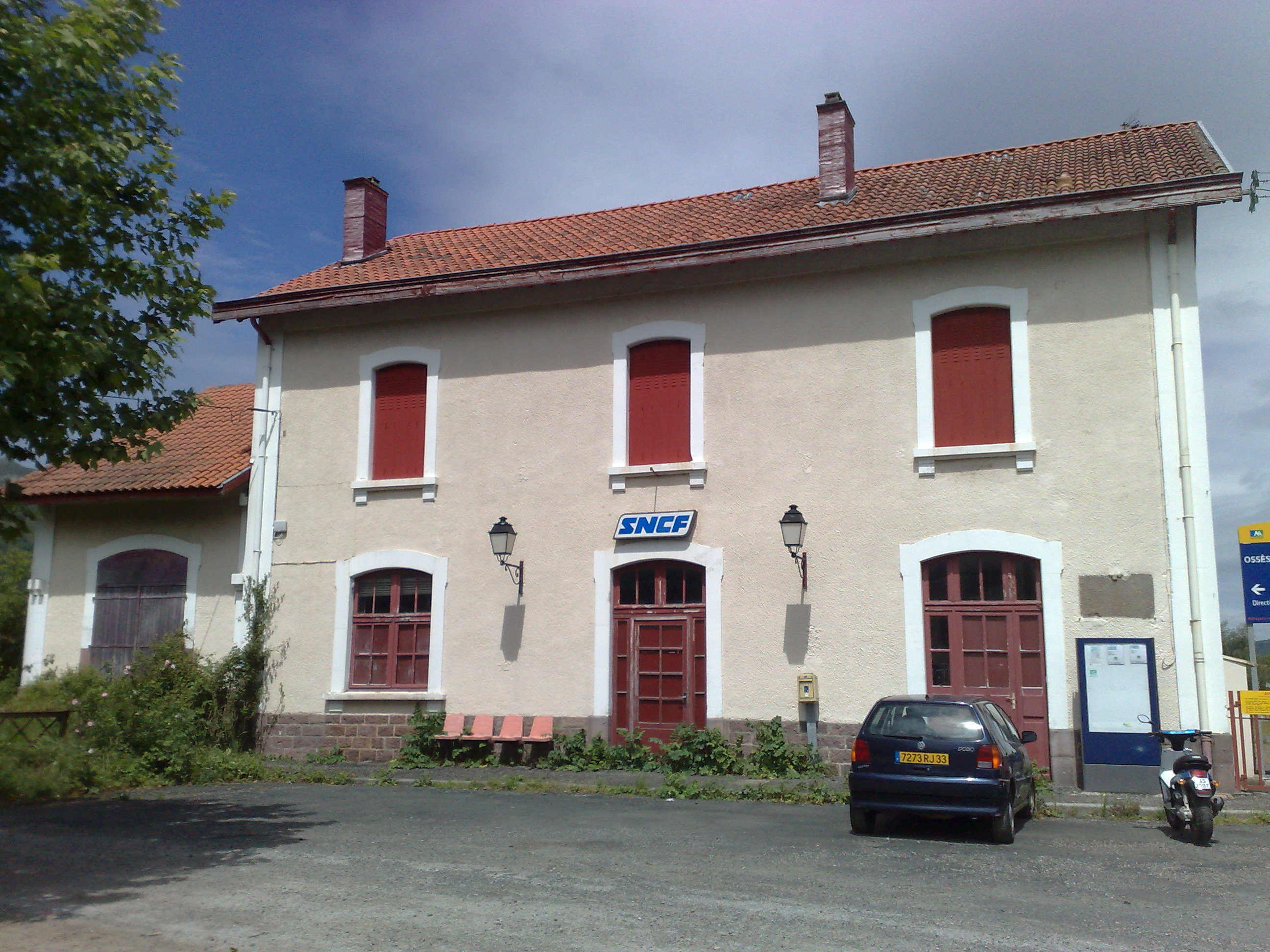 Outside of Ortzaize-Arrosa train station, Arrosa, Lower Navarre, Basque Country.